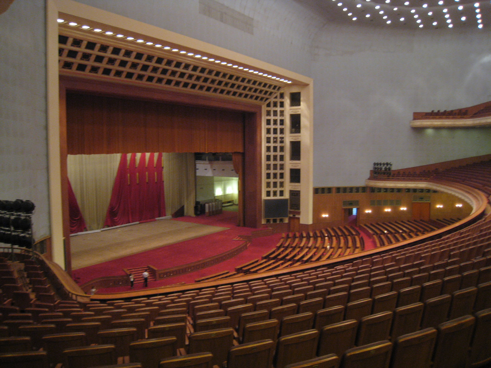 Inside the main auditorium Great Hall of the People